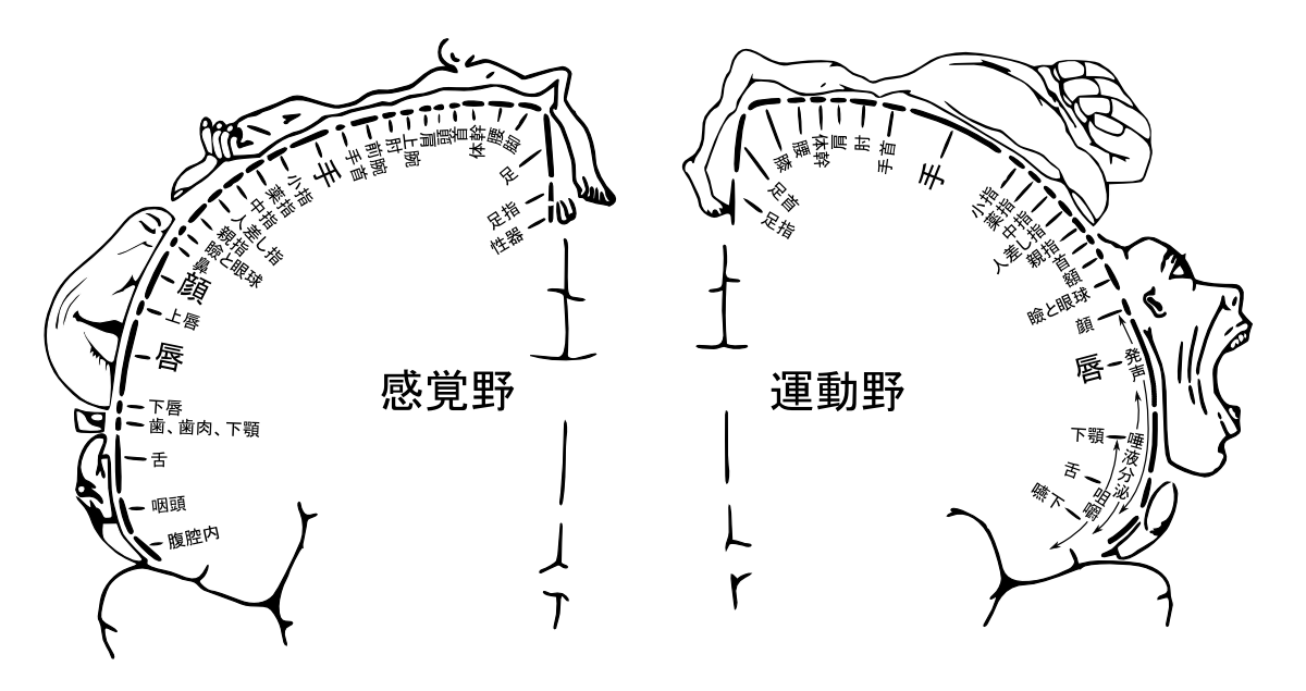 diagram showing position of regions of the human cortex corresponding to the respective afferent/efferent nerve region of the body. Writing in Japanese language. 感覚皮質と運動皮質における身体の対応部位を示した図。ペンフィールドのホムンクルス。